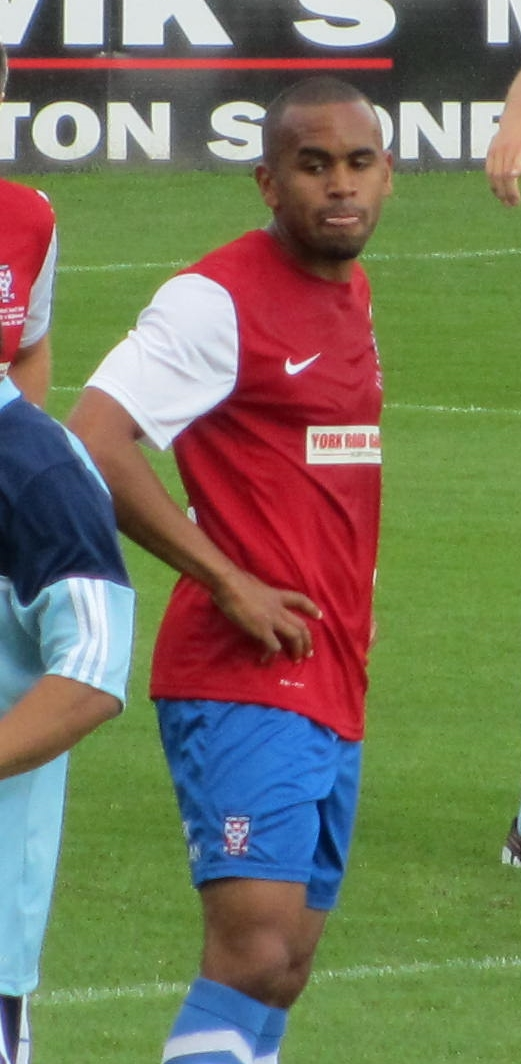 Ashley Chambers playing for York City against Middlesbrough at Bootham Crescent, York on 4 August 2012